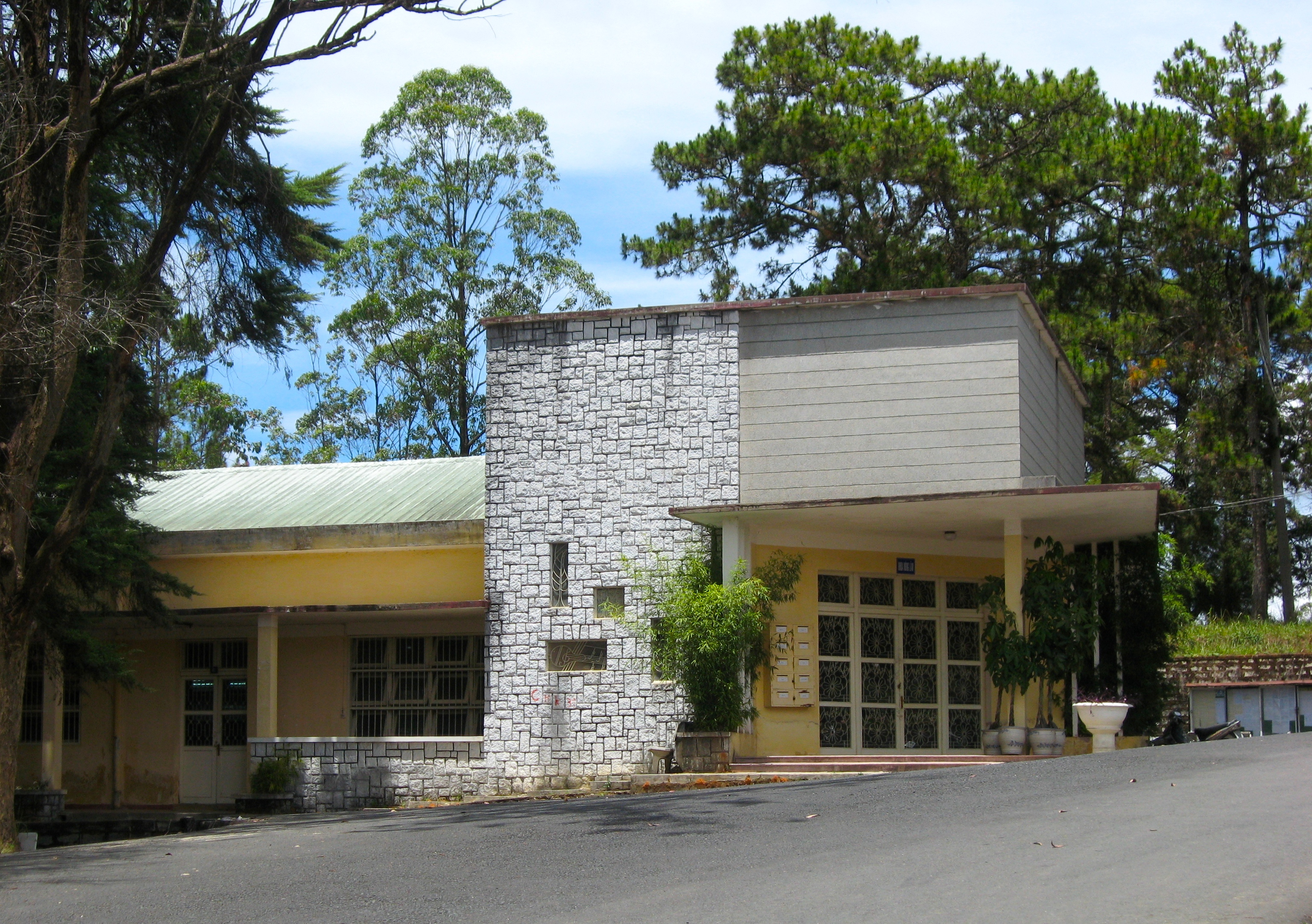 University of Da Lat